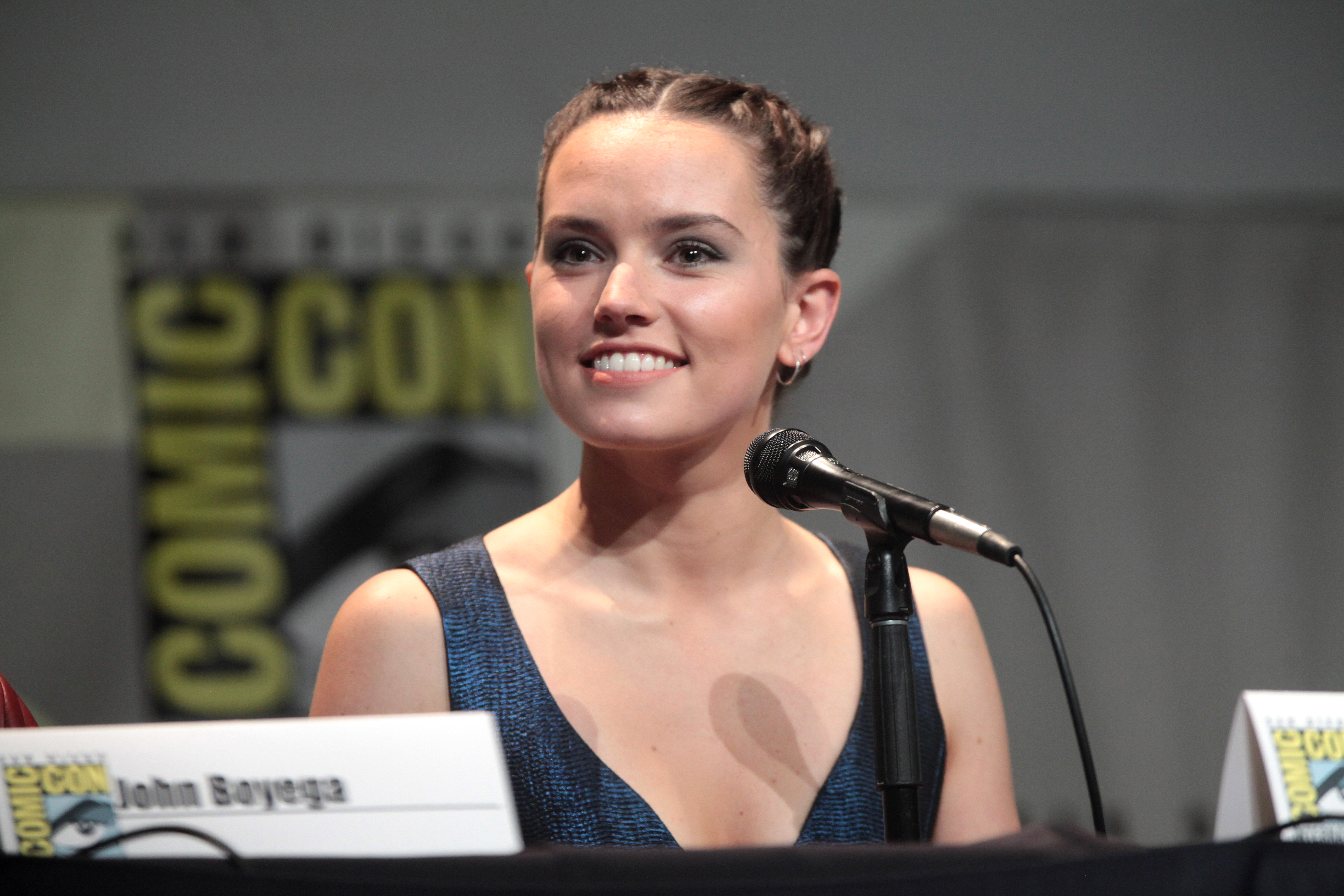 Daisy Ridley speaking at the 2015 San Diego Comic Con International, for "Star Wars: The Force Awakens", at the San Diego Convention Center in San Diego, California.